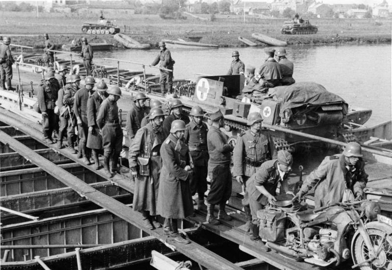 "M108/9 14 May 1940 1st Panzer Regiment crosses pontoon bridge over the Meuse at Floing, near Sedan [Army film office, Spandau-Ruhleben]" Information added by Wikimedia users.